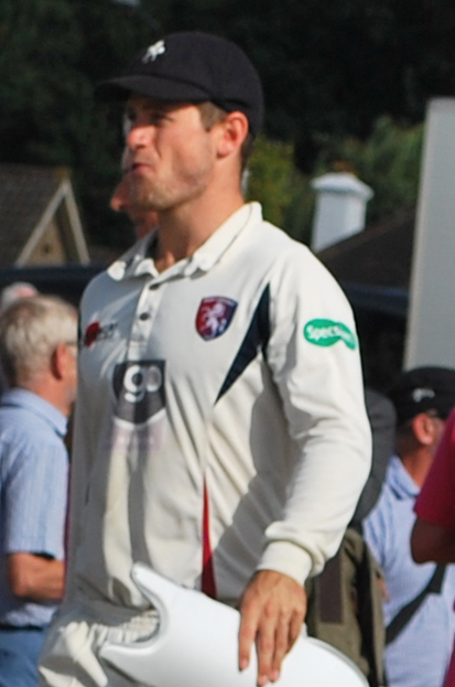 Sean Dickson at the Kent County Cricket Ground, Beckenham in September 2016